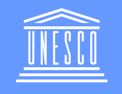 UNESCO BLUE LOGO